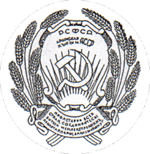 Coat of arms of Crimean Autonomous Soviet Socialist Republic (1938)